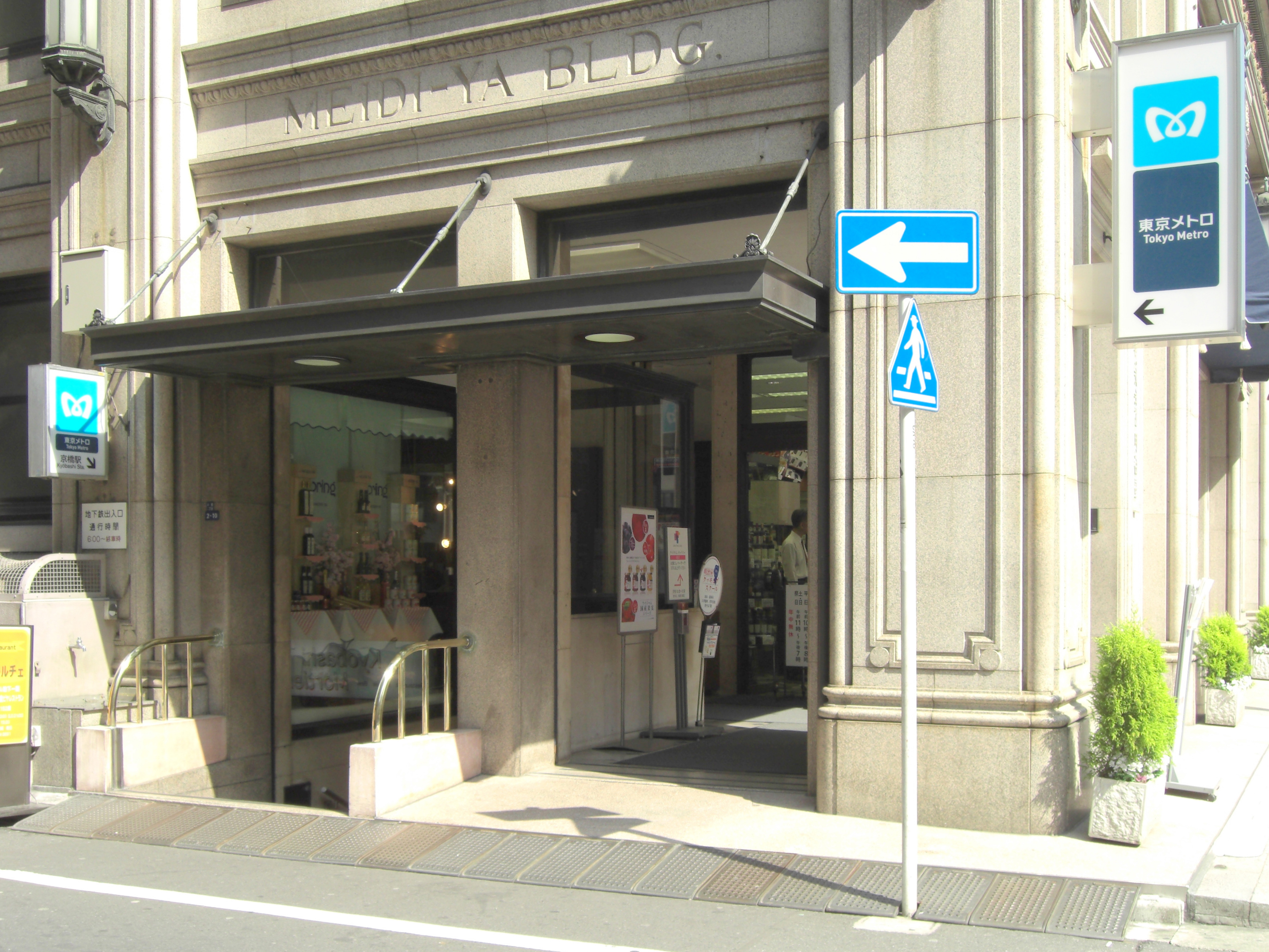 The Meidi-ya entrance to Kyobashi Station in Tokyo